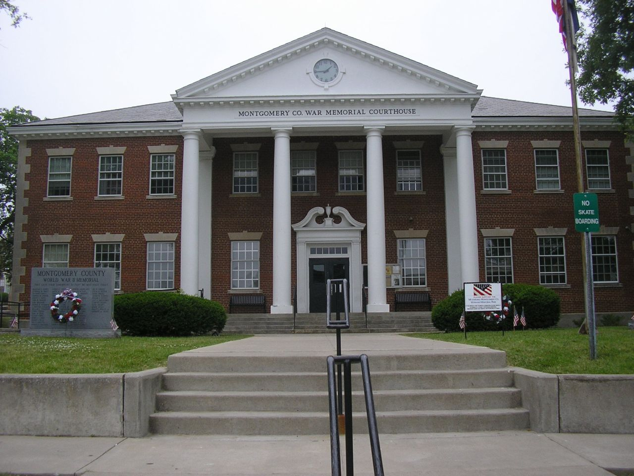 Montgomery County, Kentucky courthouse, in the Mt. Sterling Commercial Historic District.